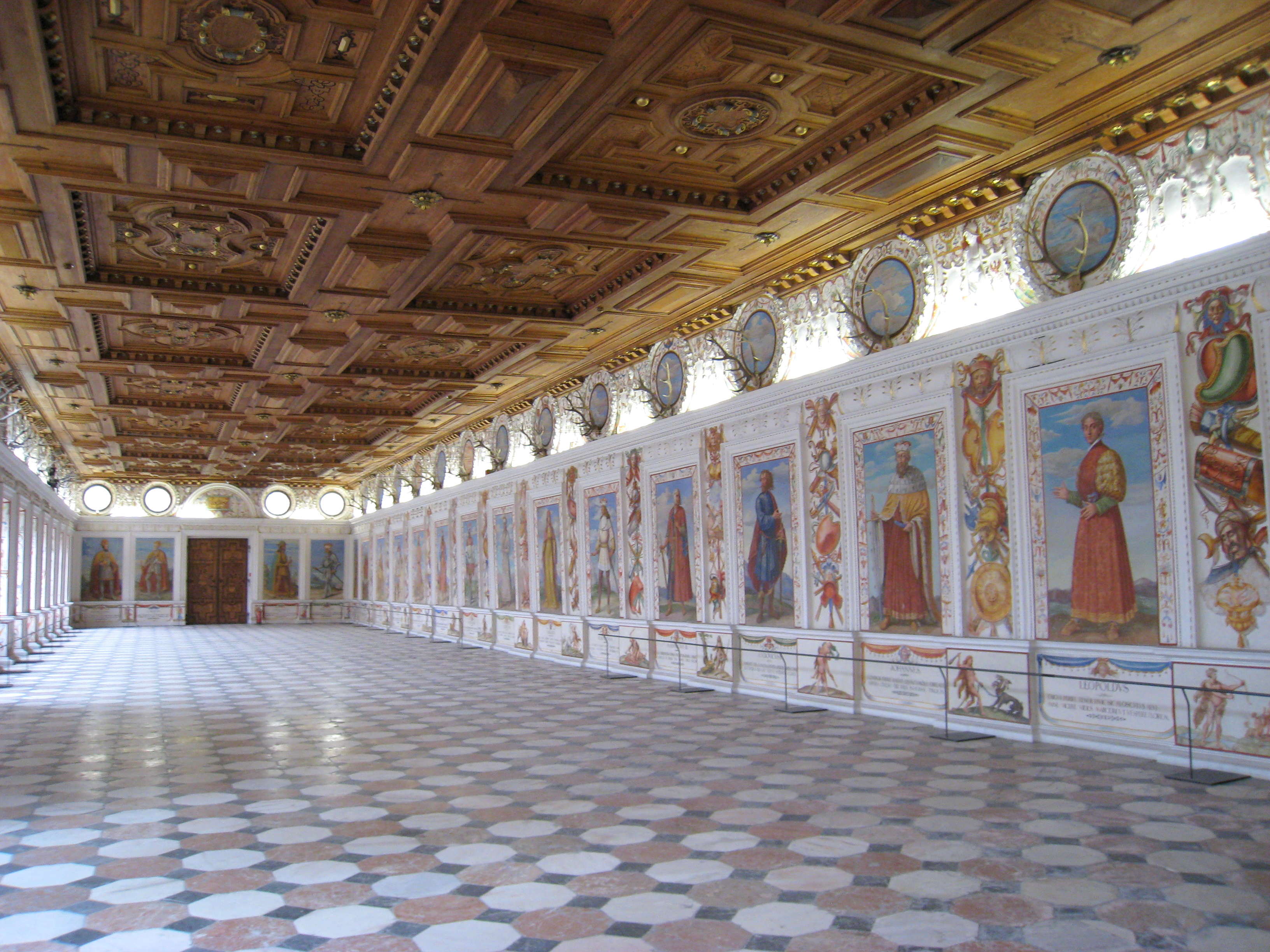 Schloss Ambras, Innsbruck, Austria - Spanish Hall.